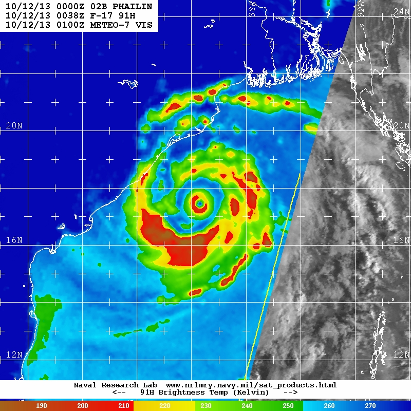 0038z 12 October 2013 F-17 P1H microwave pass of Cyclone Phailin in the North Indian Ocean. At this time, Phailin was a potentially catasrophic system packing winds of 160 mph.